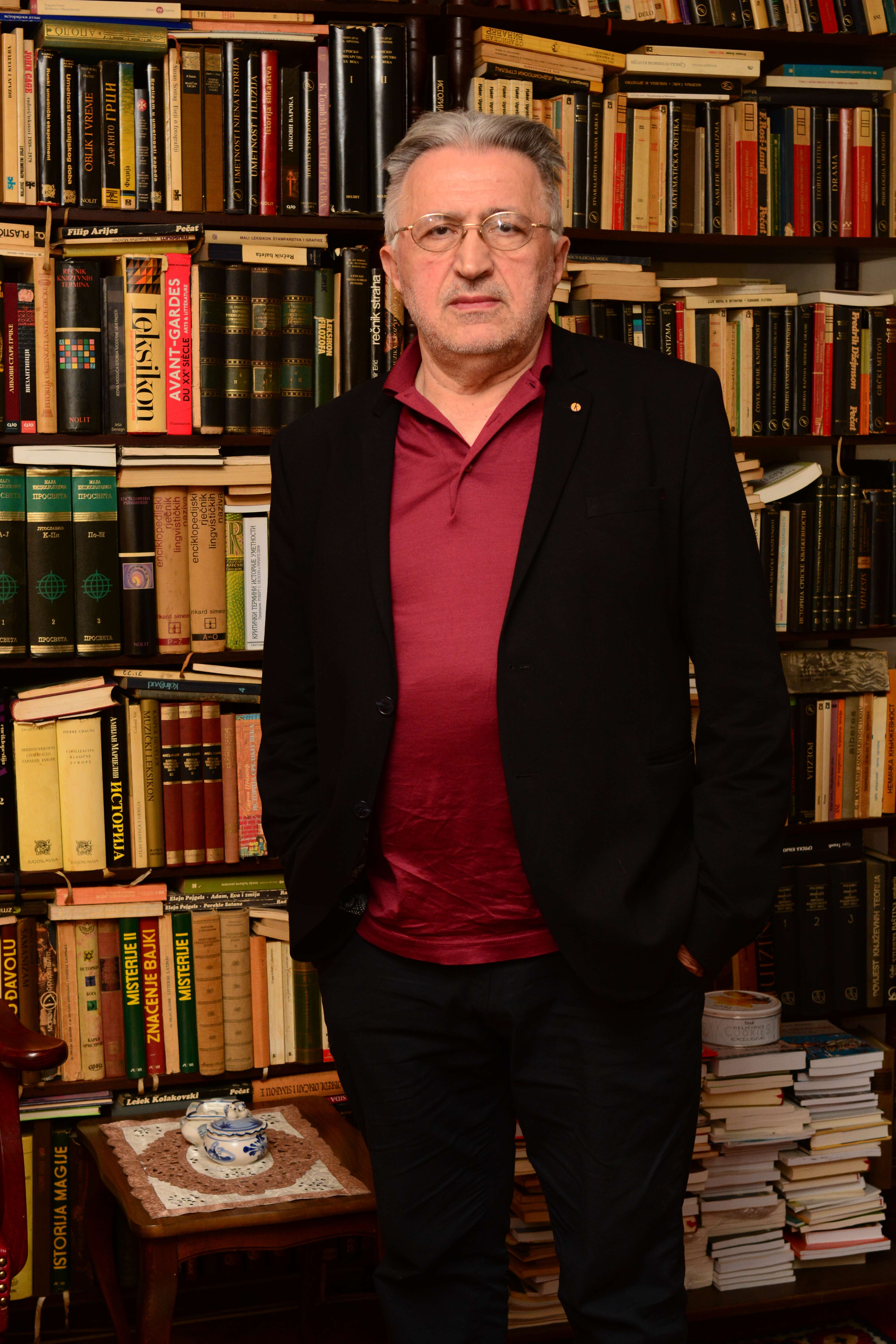 Jovan Zivlak, Serbian poet and publisher 2013.